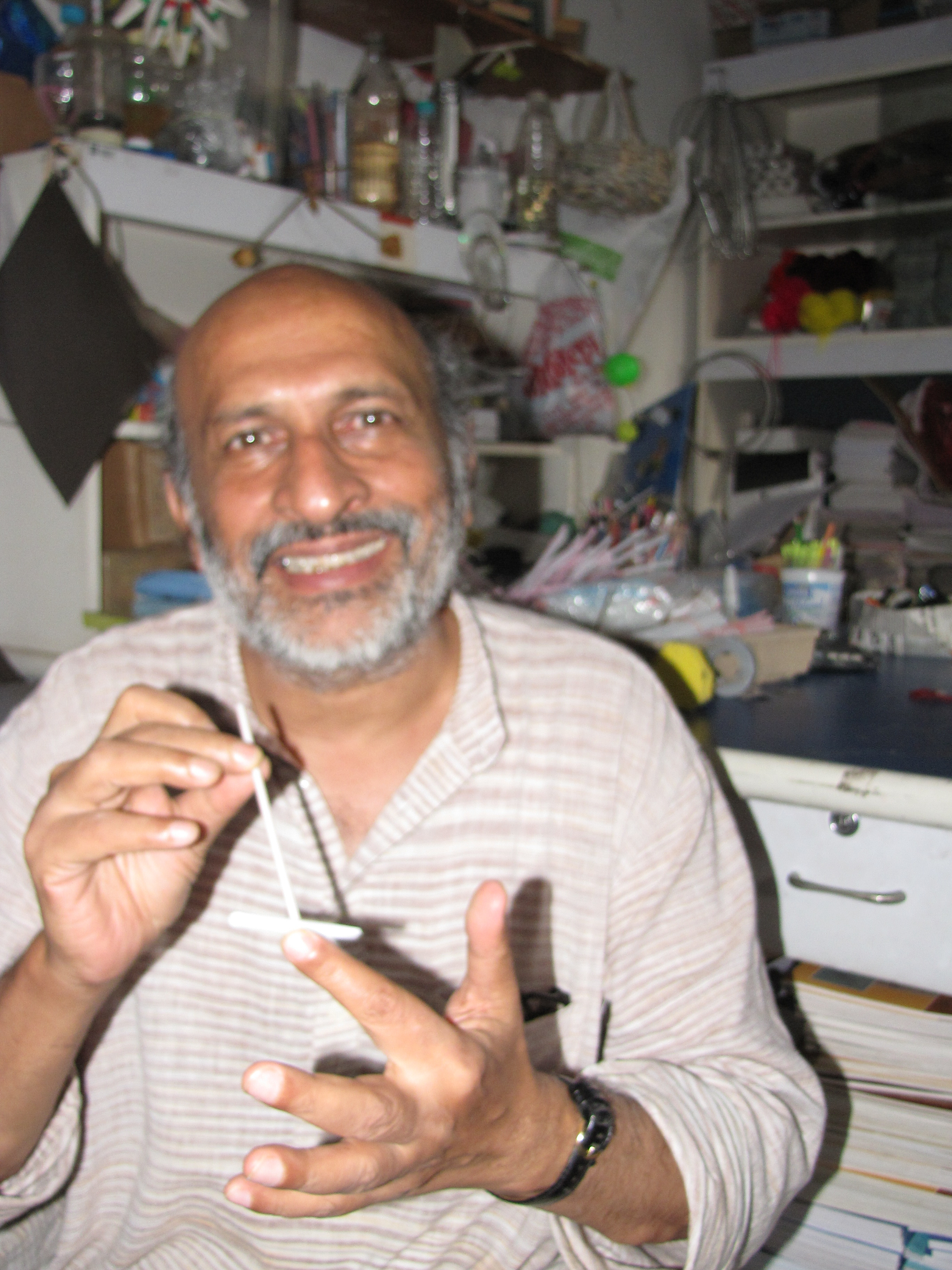 Arvind Gupta, a notable Indian toy inventor and populariser of science.